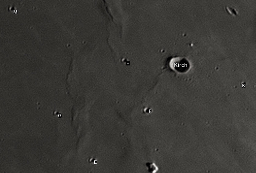 Kirch lunar crater as seen from Earth with satellite craters labeled